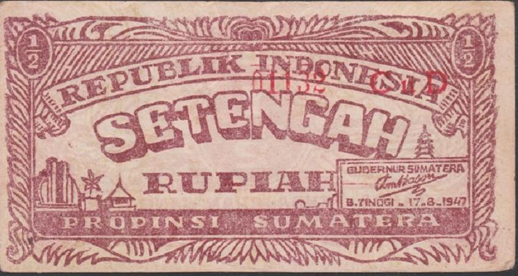 Uang Republik Indonesia Propinsi Sumatera 1947